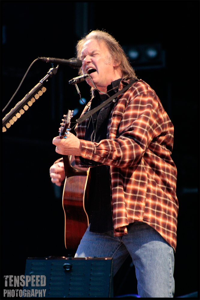 Neil Young on Isle of Wight Festival, 2009